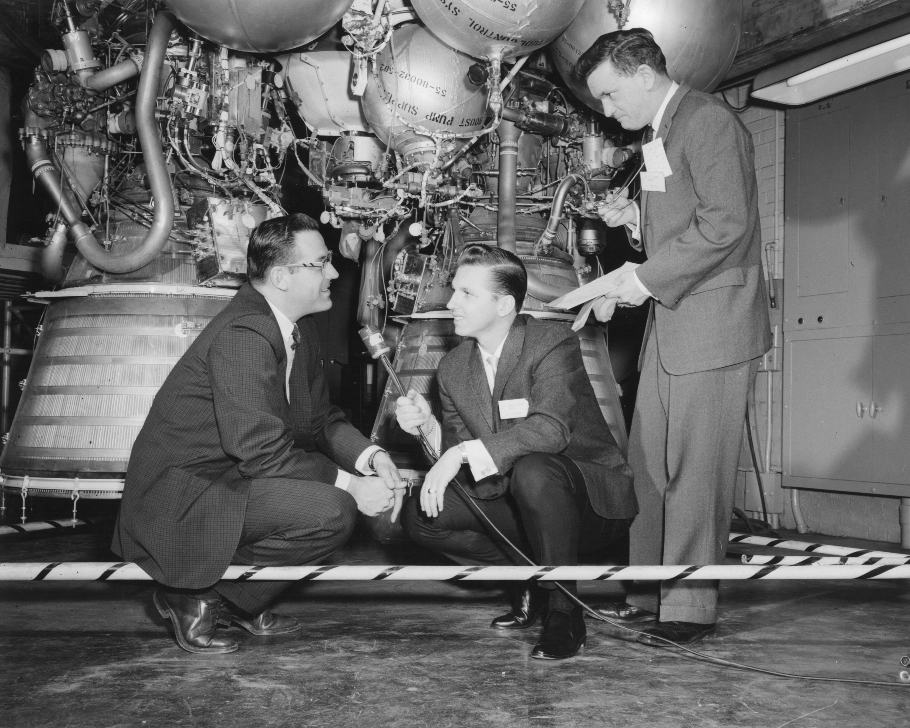 Title: WHK RADIO STATION CENTAUR INTERVIEW AT THE SPACE POWER CHAMBER SPC